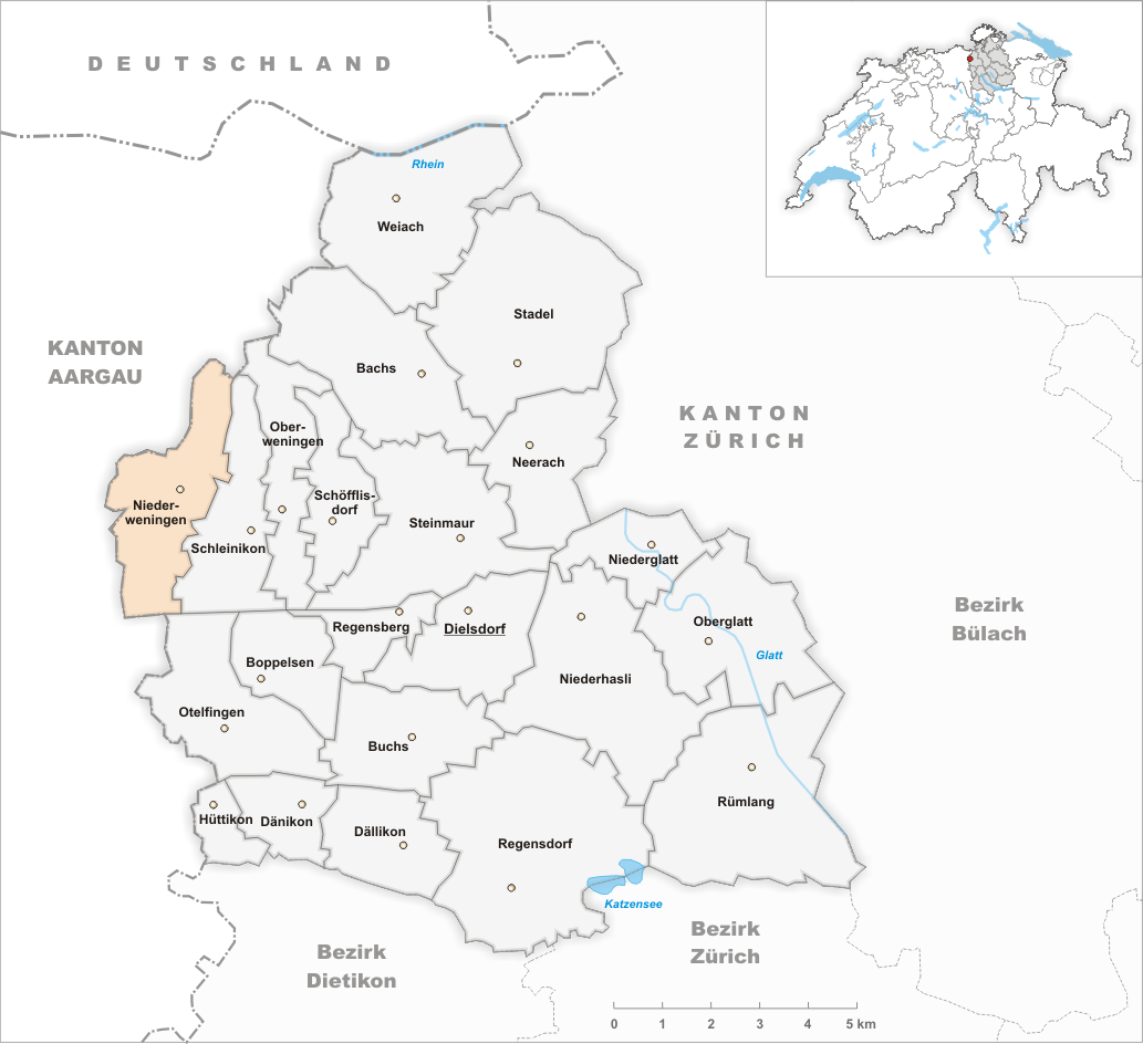 Municipality Niederweningen